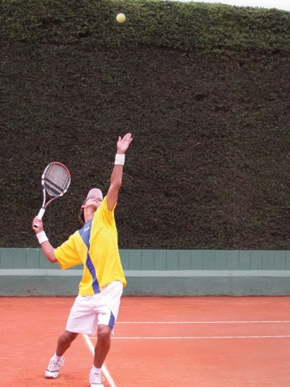 tennis